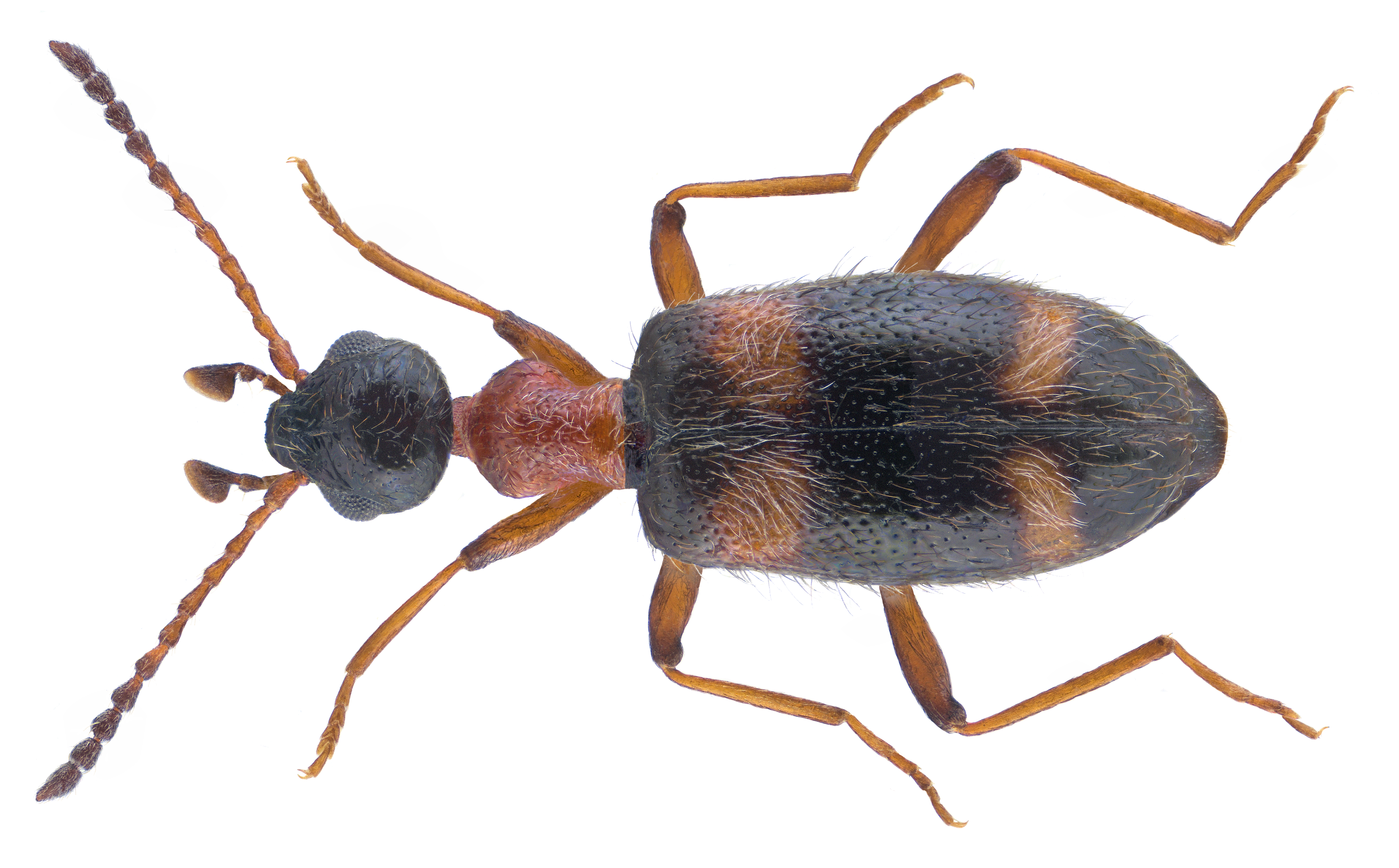 Family: Anthicidae Size: 3.5 mm Location: Turkey, Prov. Antalya, Mahmutlar, Karapinar leg. A.Skale, 2006; det. D.Telnov, 2006 Photo: U.Schmidt, 2018